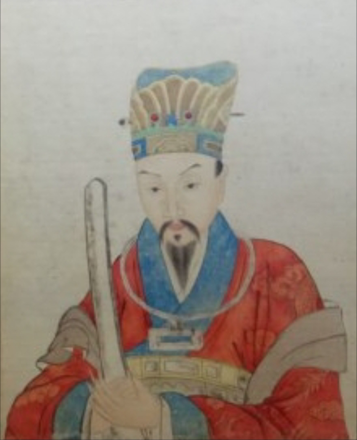 Yan Song, minister of the Ming Dynasty.